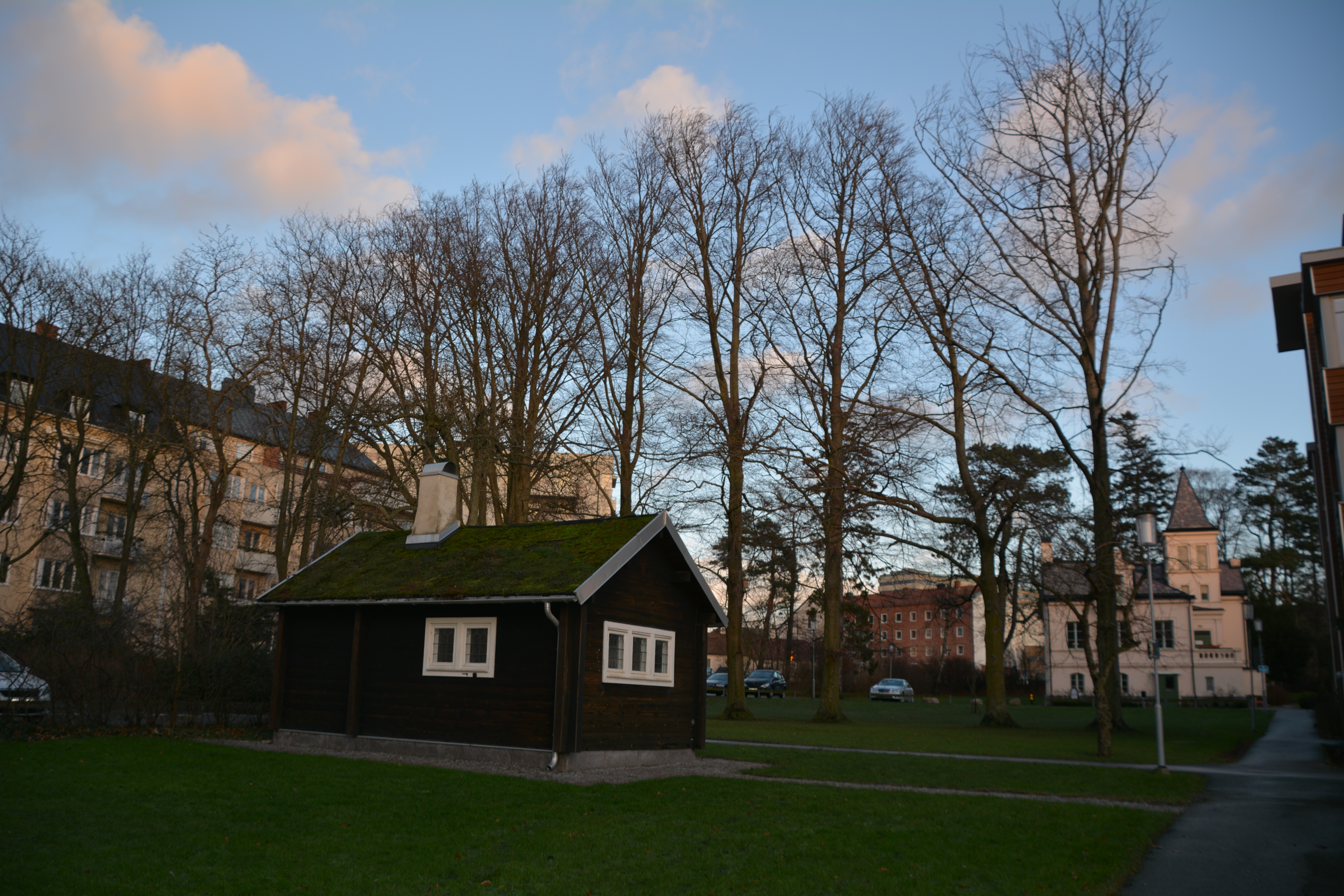 Belndas stuga och Quennerstedtska villan